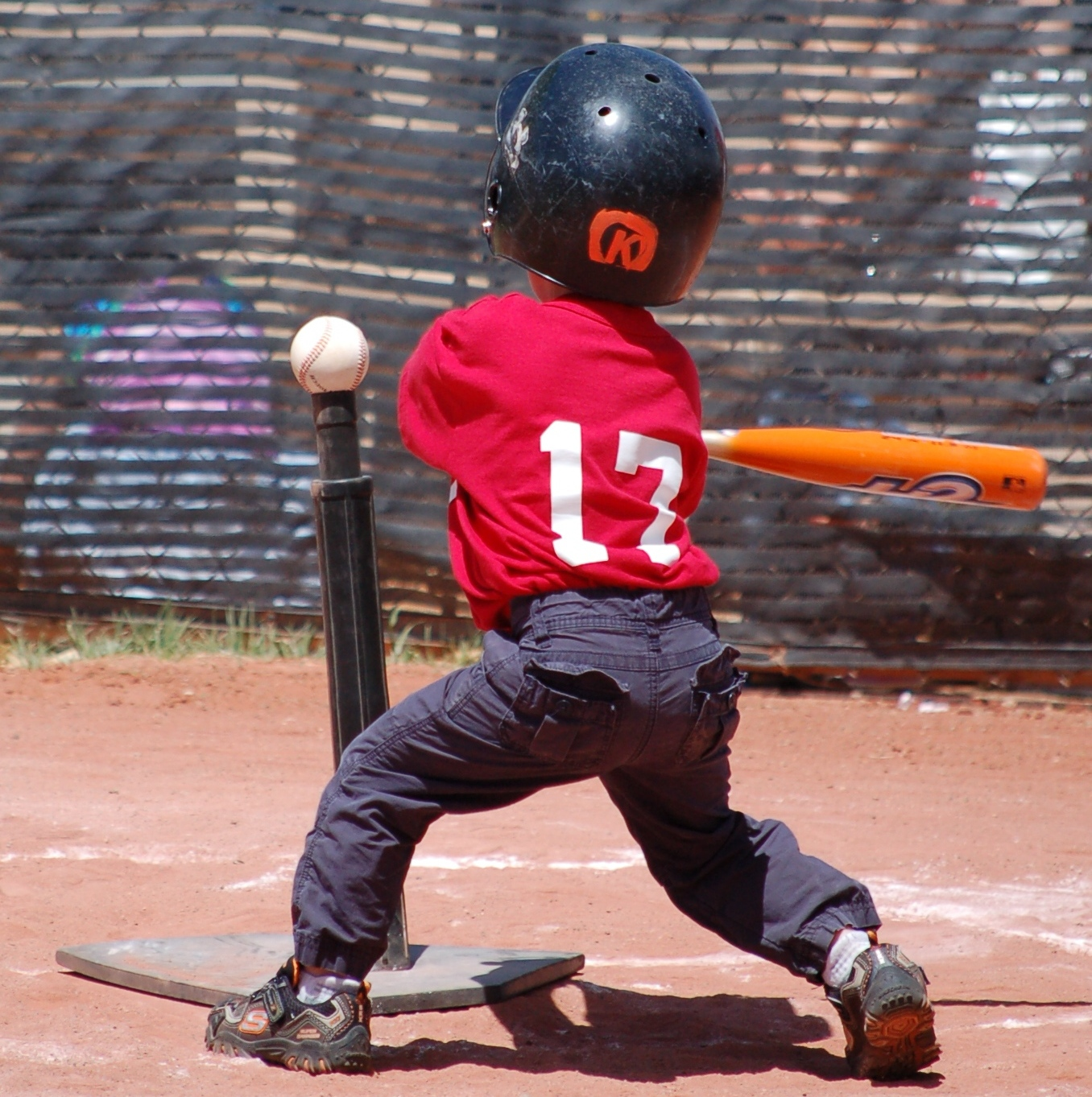 A right-handed tee ball player swings at a ball on the tee. Photo taken by Vinnie Ahuja